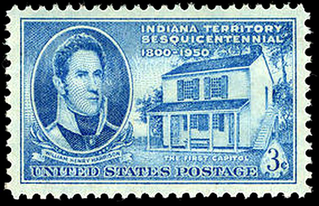 US Postage stamp: William Henry Harrison, 1950 commemorative issue, 3c